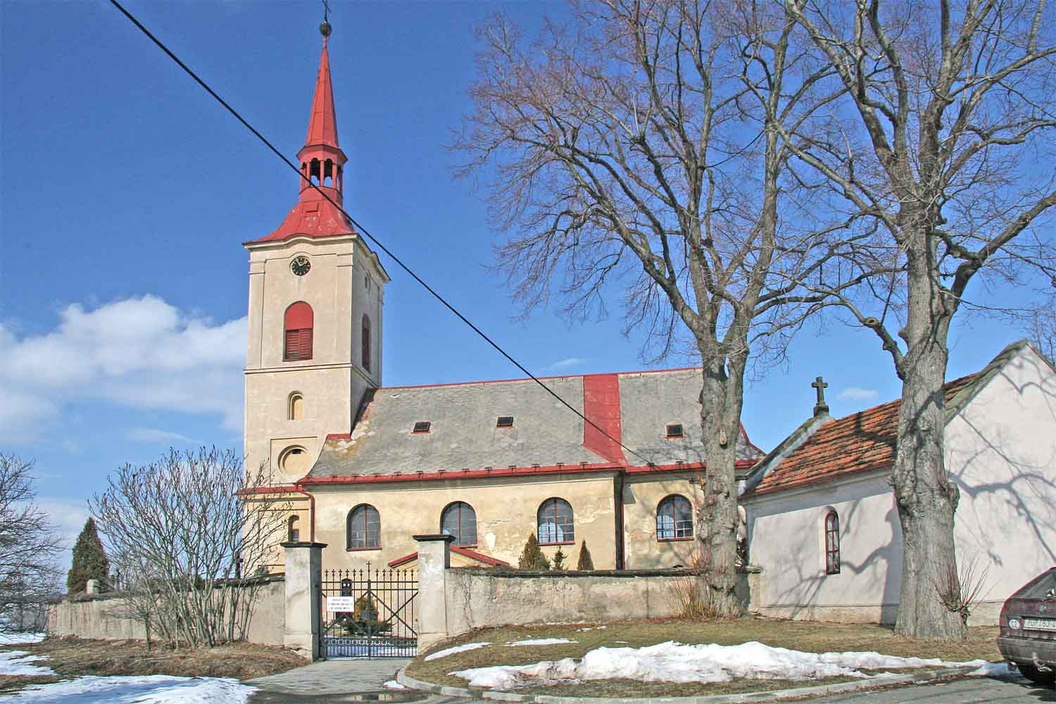 Church of SS Peter and Paul in Slatina (near Vysoké Mýto), Ústí nad Orlicí District, Czech Republic.